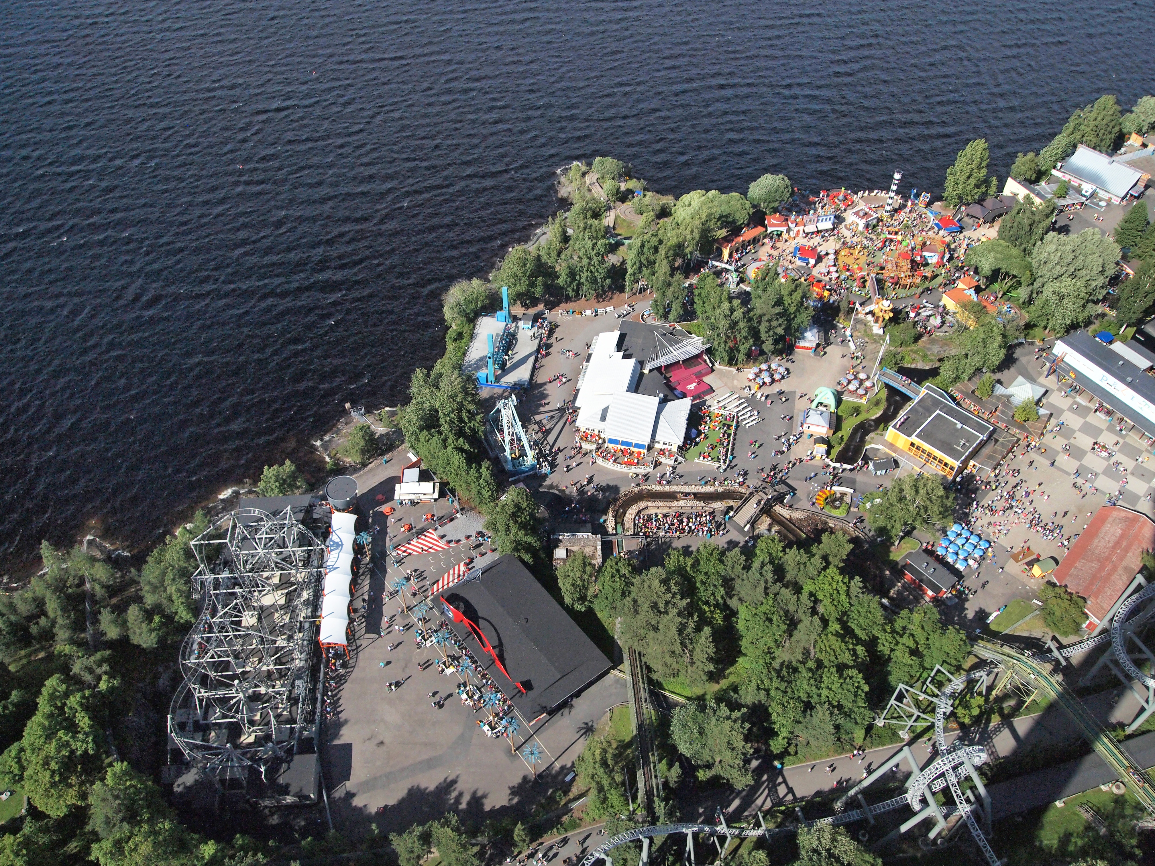 View from tower Näsinneula to Särkänniemi amusement park, Tampere. This photograph was taken with an Olympus E-PL1